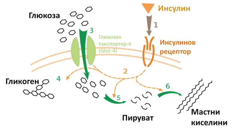 Effect of insulin on glucose uptake and metabolism. Insulin binds to its receptor (1), which in turn starts many protein activation cascades (2). These include: translocation of Glut-4 transporter to the plasma membrane and influx of glucose (3), glycogen synthesis (4), glycolysis (5) and fatty acid synthesis (6). It works at other sizes, but sometimes truncates the text on the far right.